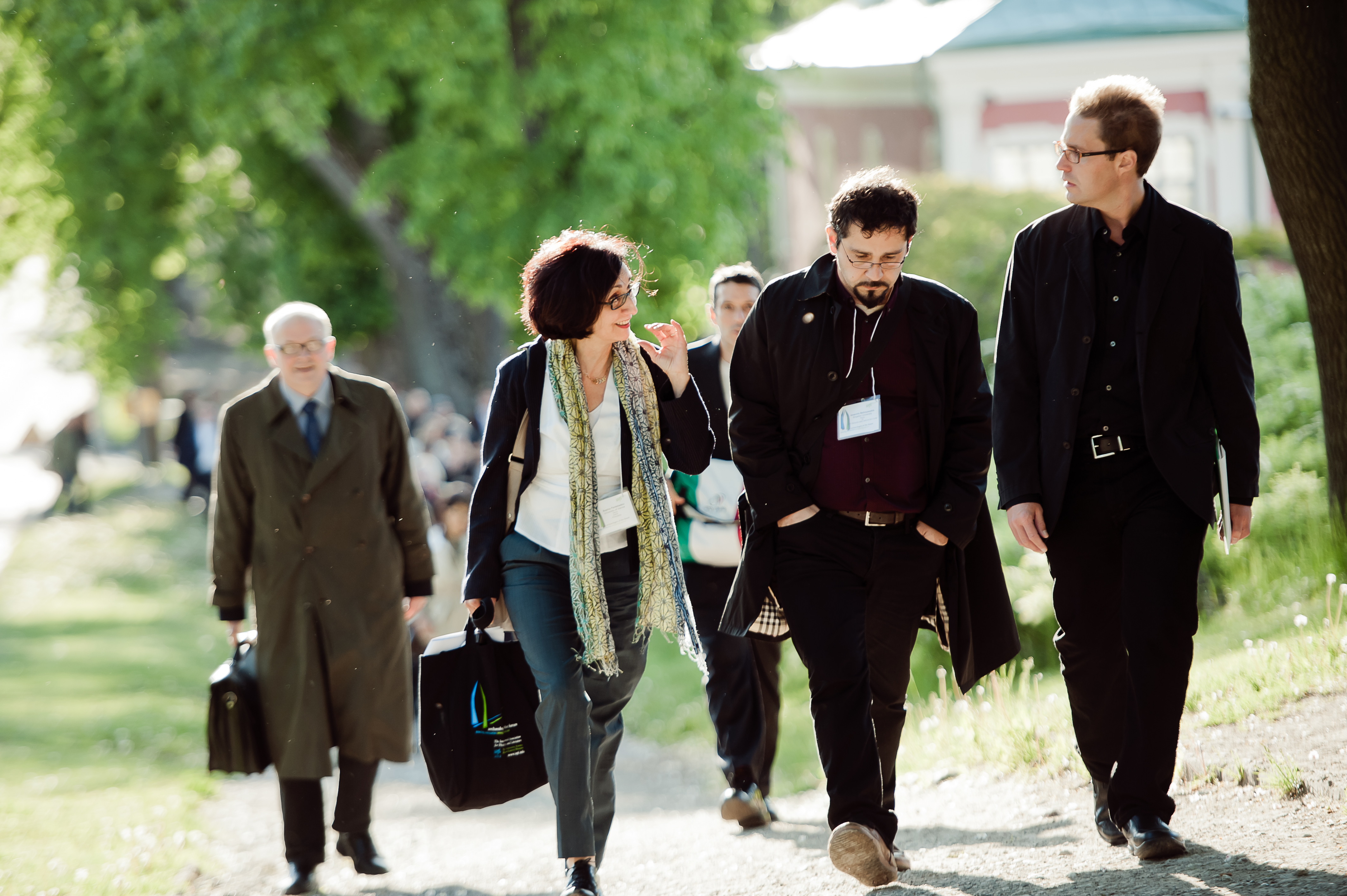 Participants moving to reception at the 36th Annual Conference of the Association of Philosophy and Literature in Tallinn, Estonia.